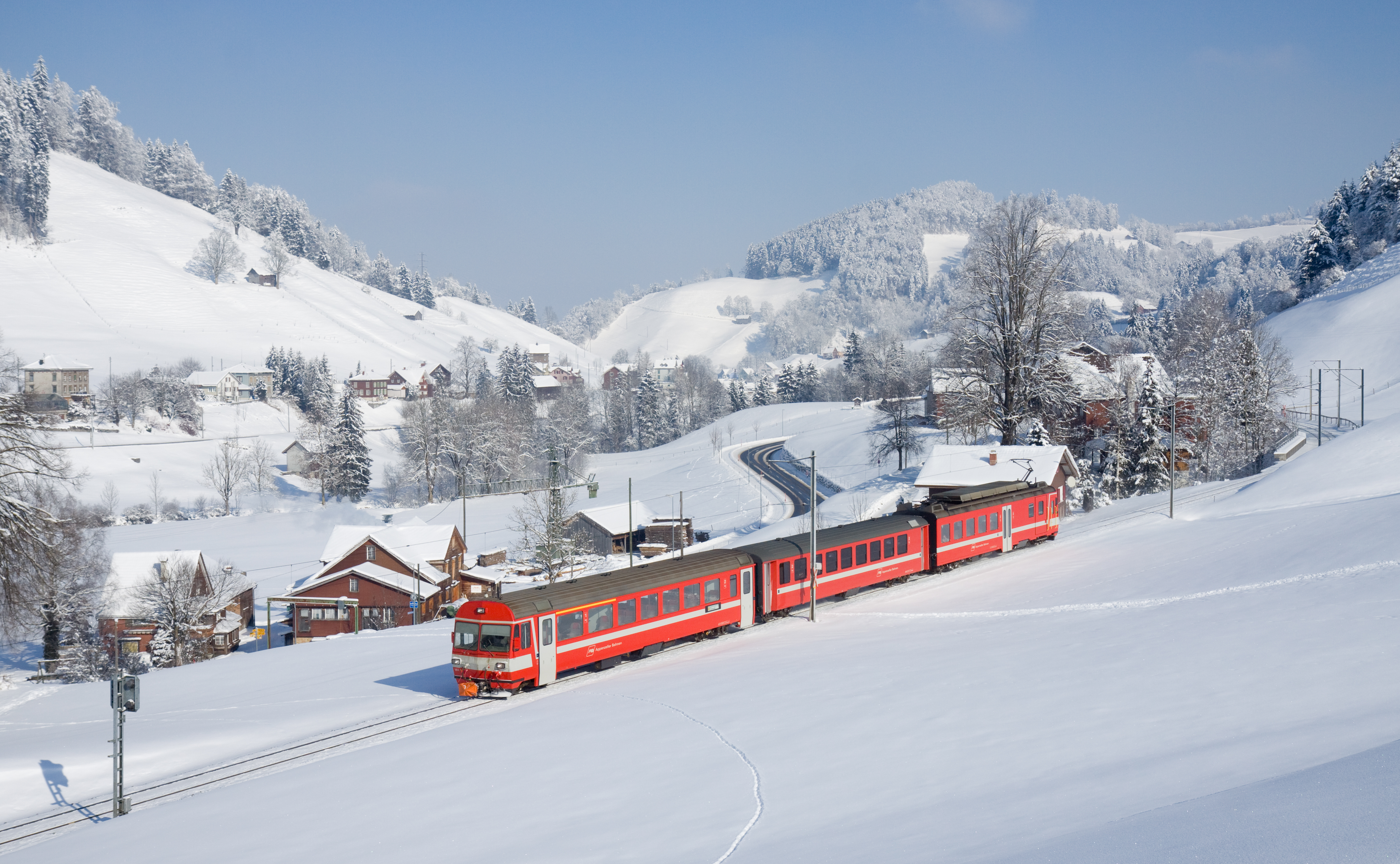 A Appenzeller Bahnen local train (Wasserauen - Gossau SG) is passing a nice winter scenery near Urnäsch, Switzerland.